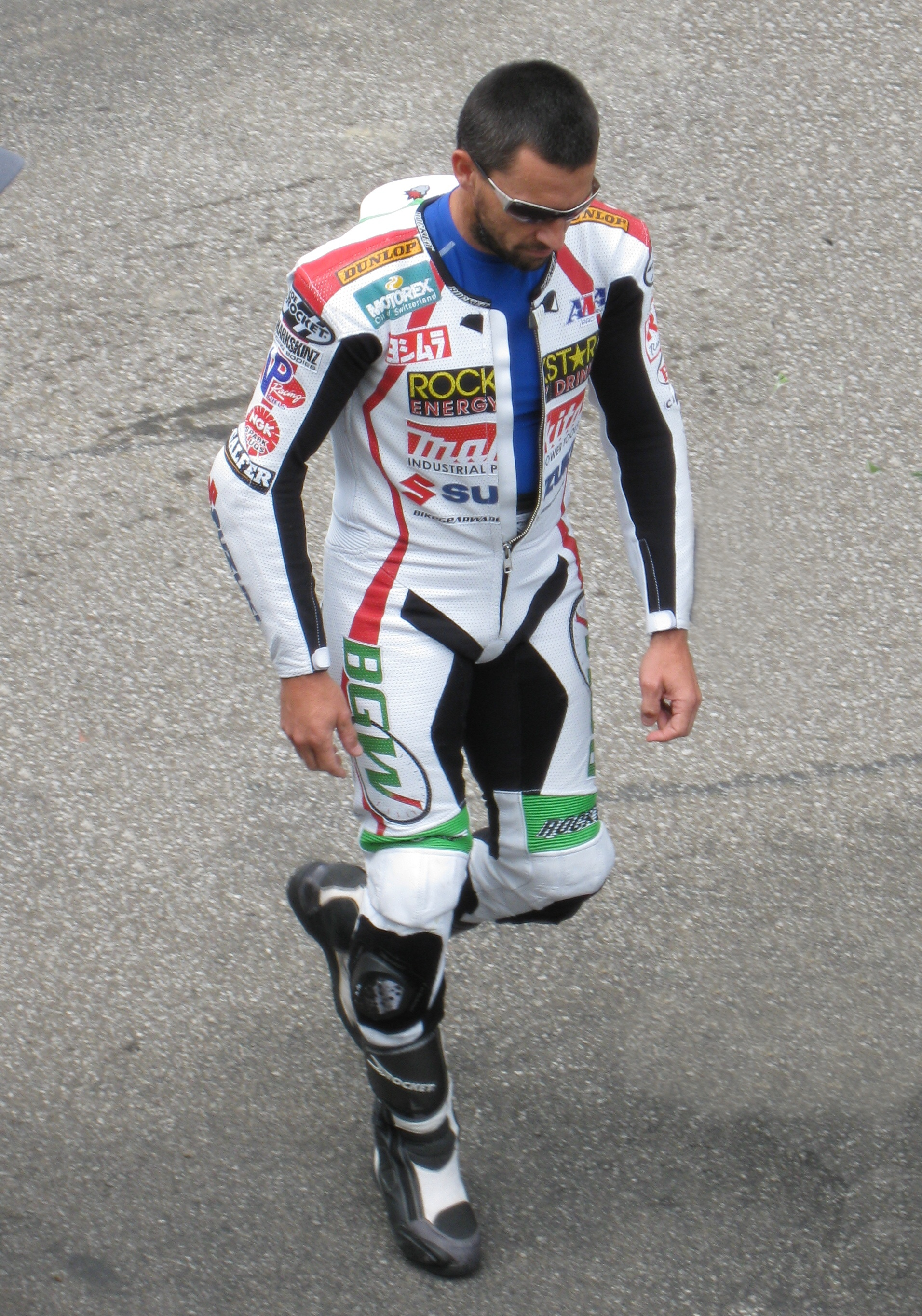 Mat Maldin at Mid Ohio race car course, Lexington, Ohio, USA on July 18, 2009. Taken from the observation deck above pit lane.